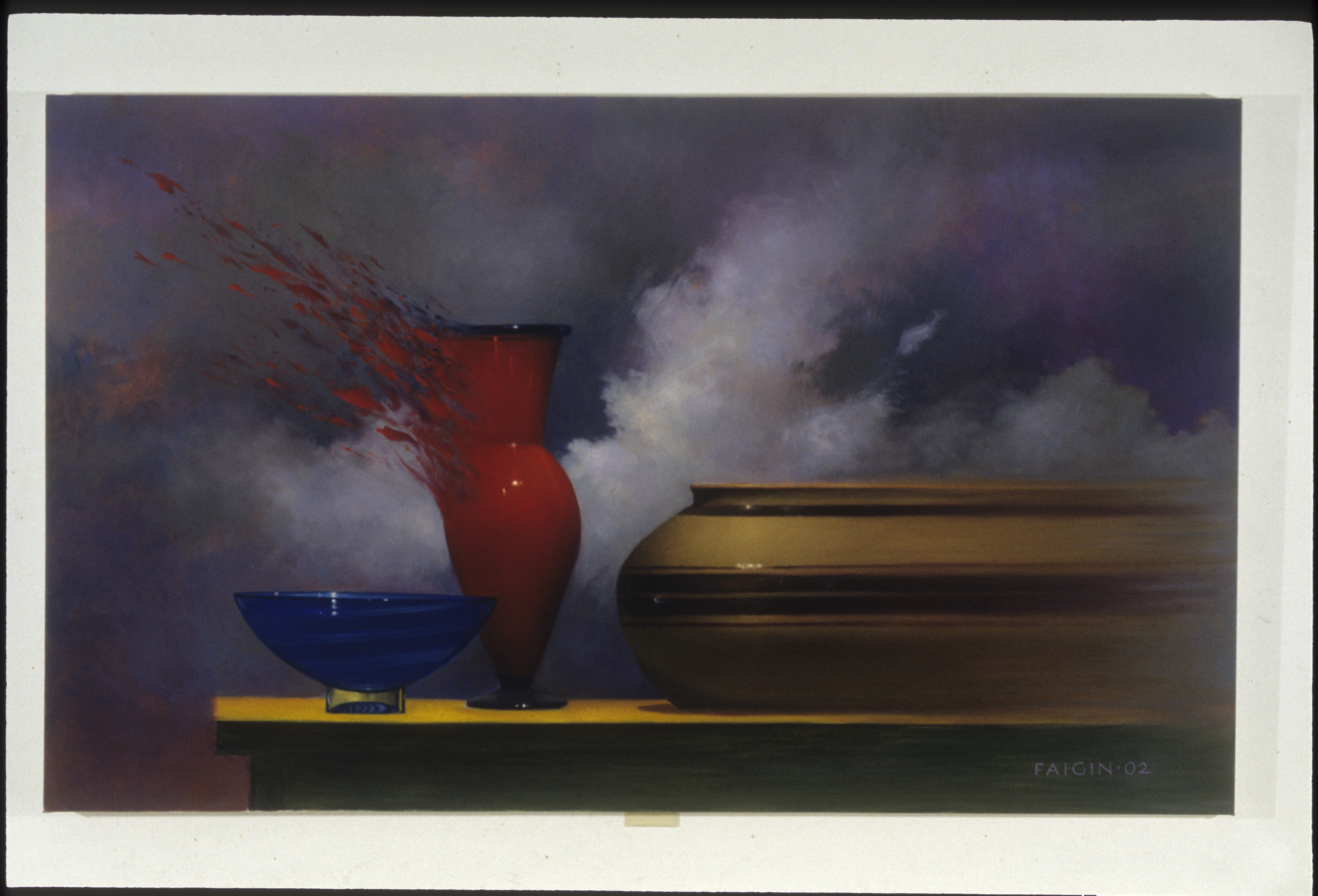 Still life painting by artist Gary Faigin, Oil on canvas